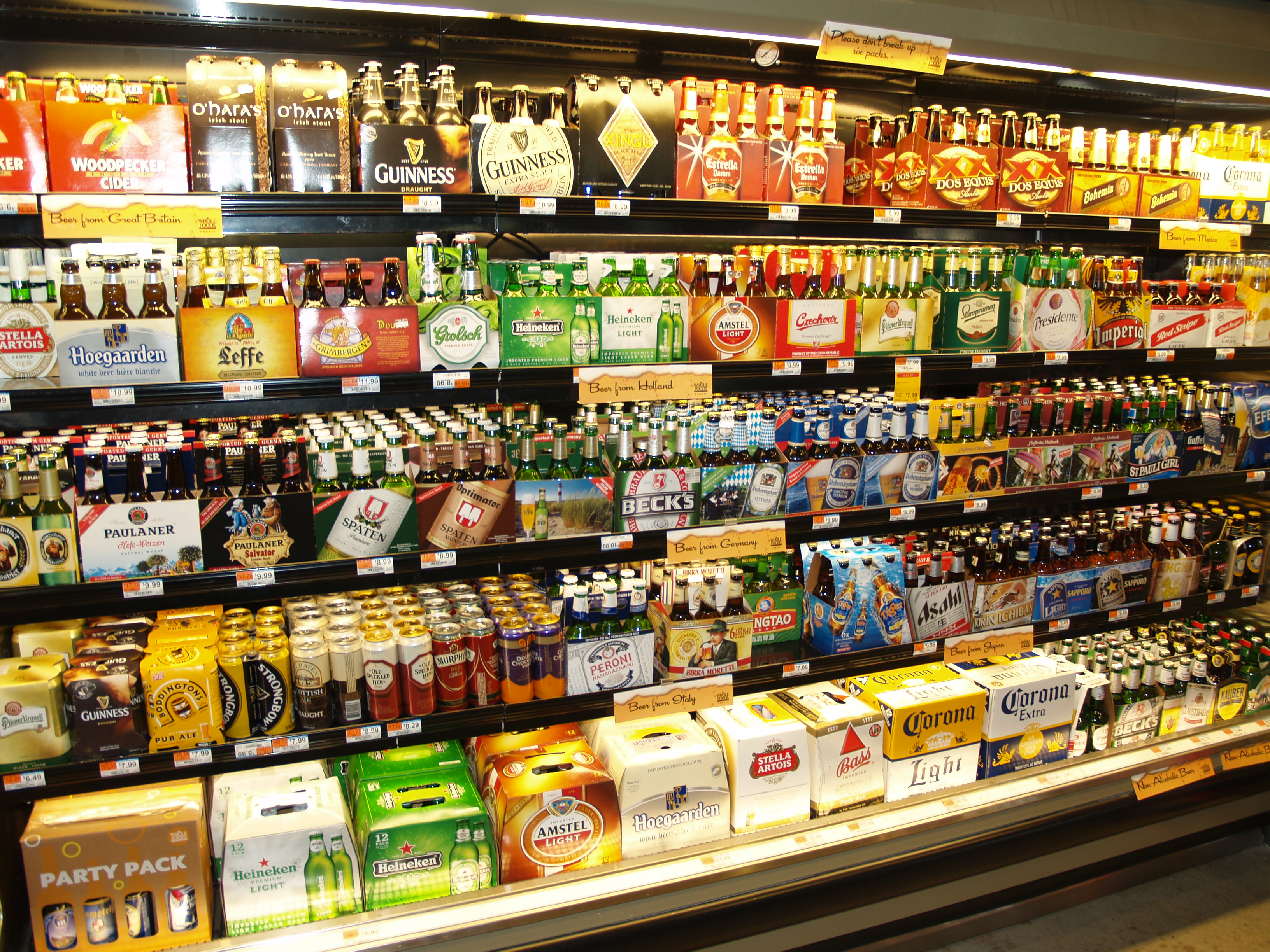 A refrigerated beer display at a Whole Foods in New York City.